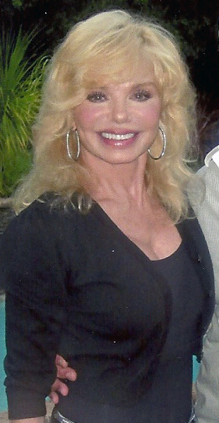 Loni Anderson - December, 2012 - Beverly Hills, CA